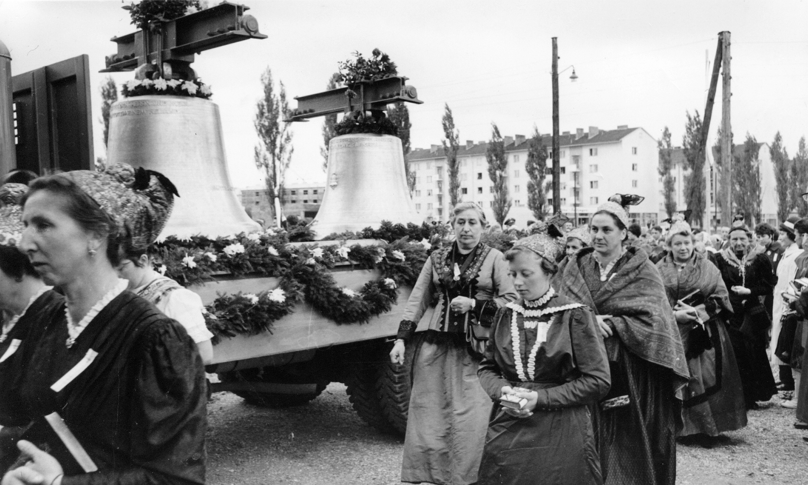 Members of the Goldhaubengruppe (gold cap group) at the bell dedication for the Autobahnkirchen (Highway Church) Haid, Ansfelden, Austria.